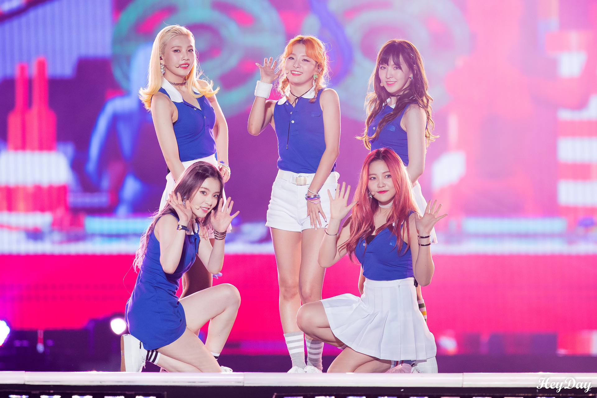 Red Velvet 2016 in Incheon.